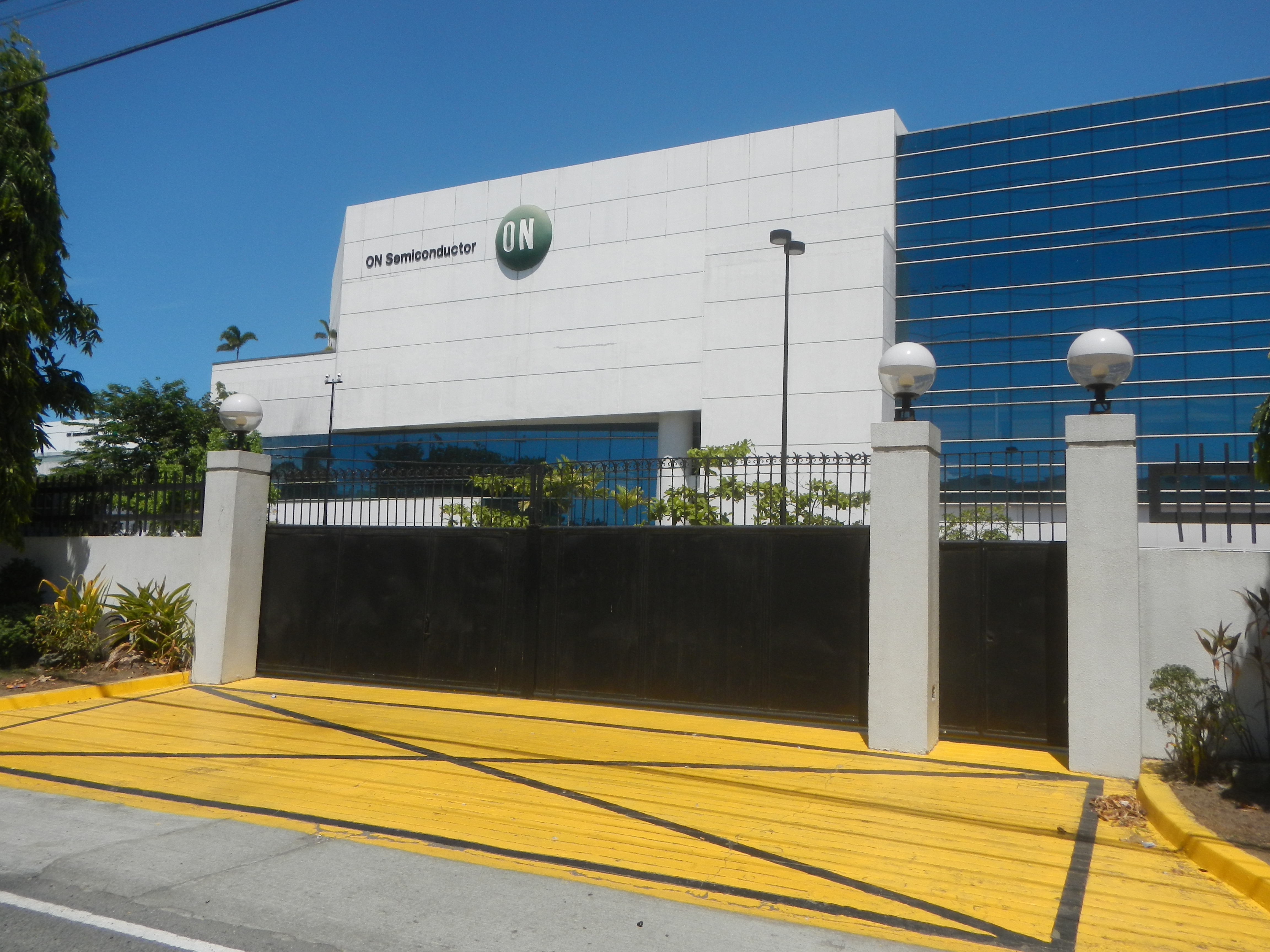 Governor's Drive (Carmona, Cavite) ON Semiconductor ON Semiconductor (Maduya, Carmona, Cavite) Governor's Drive SLEX Bridge (South Luzon Expressway toll gate, Maduya, Carmona Interchange, Cavite) Km. 49+286 Governors Drive 14°19'32"N 121°3'57"E Maduya 14°18'47"N 121°3'51"E Governor's Drive South Luzon Expressway Barangay Maduya Carmona, Cavite (Note: Judge Florentino Floro, the owner, to repeat, Donor Florentino Floro of all these photos hereby donate gratuitously, freely and unconditionally Judge Floro all these photos to and for Wikimedia Commons, exclusively, for public use of the public domain, and again without any condition whatsoever).